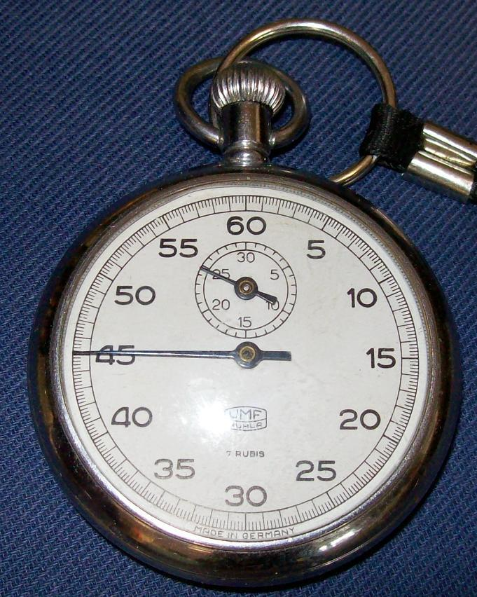 Stoppuhr (Chronometer)